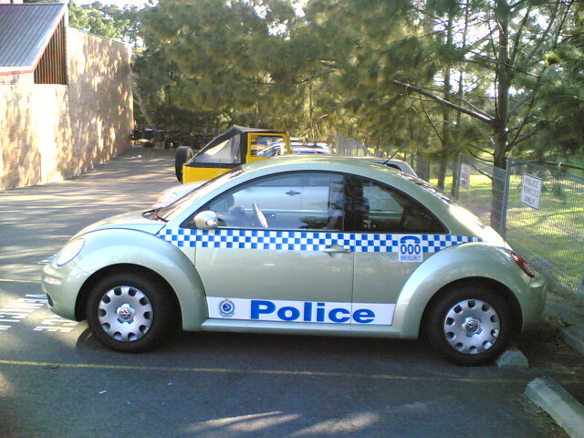 The New South Wales Police service now have some of the new V.W. Beetles as station vehicles. This one was photographed at Bondi Junction, Police station in Sydney's east.Volkswagen Beetle Police Car